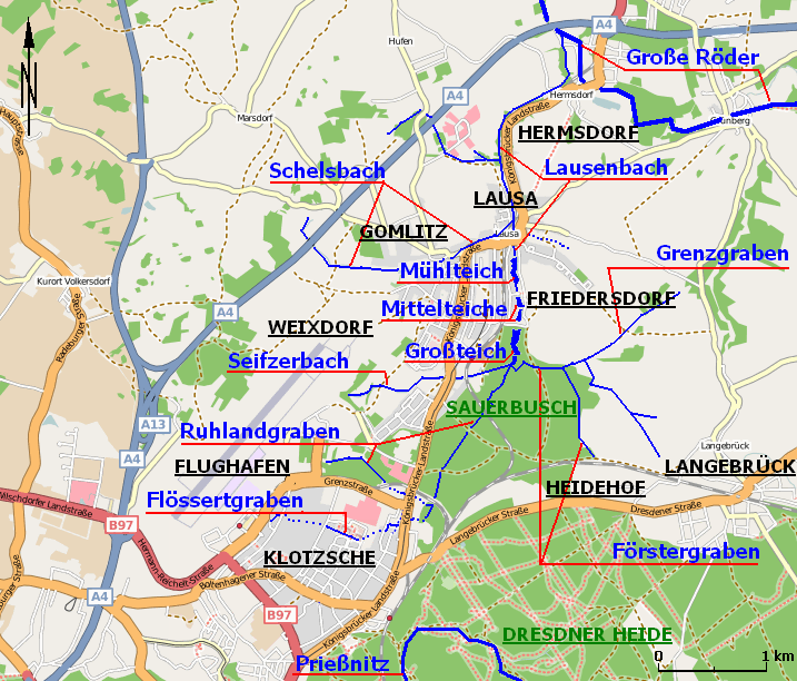 map of the Lausenbach area, Dresden-Weixdorf